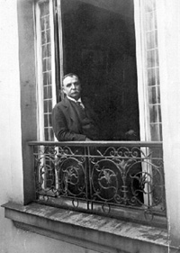 Krikor Zohab in his apartment in Constantinople, Bera street, Gjumulsusein palas, 26.